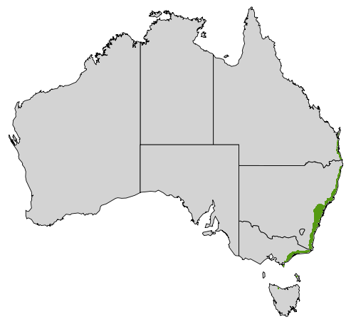 Range map of Banksia serrata, made by me from George, Alex (1999) "Banksia" in Wilson, Annette (ed.) , ed. Flora of Australia: Volume 17B: Proteaceae 3: Hakea to Dryandra, CSIRO Publishing / Australian Biological Resources Study, p. p. 377 ISBN: 0-643-06454-0.